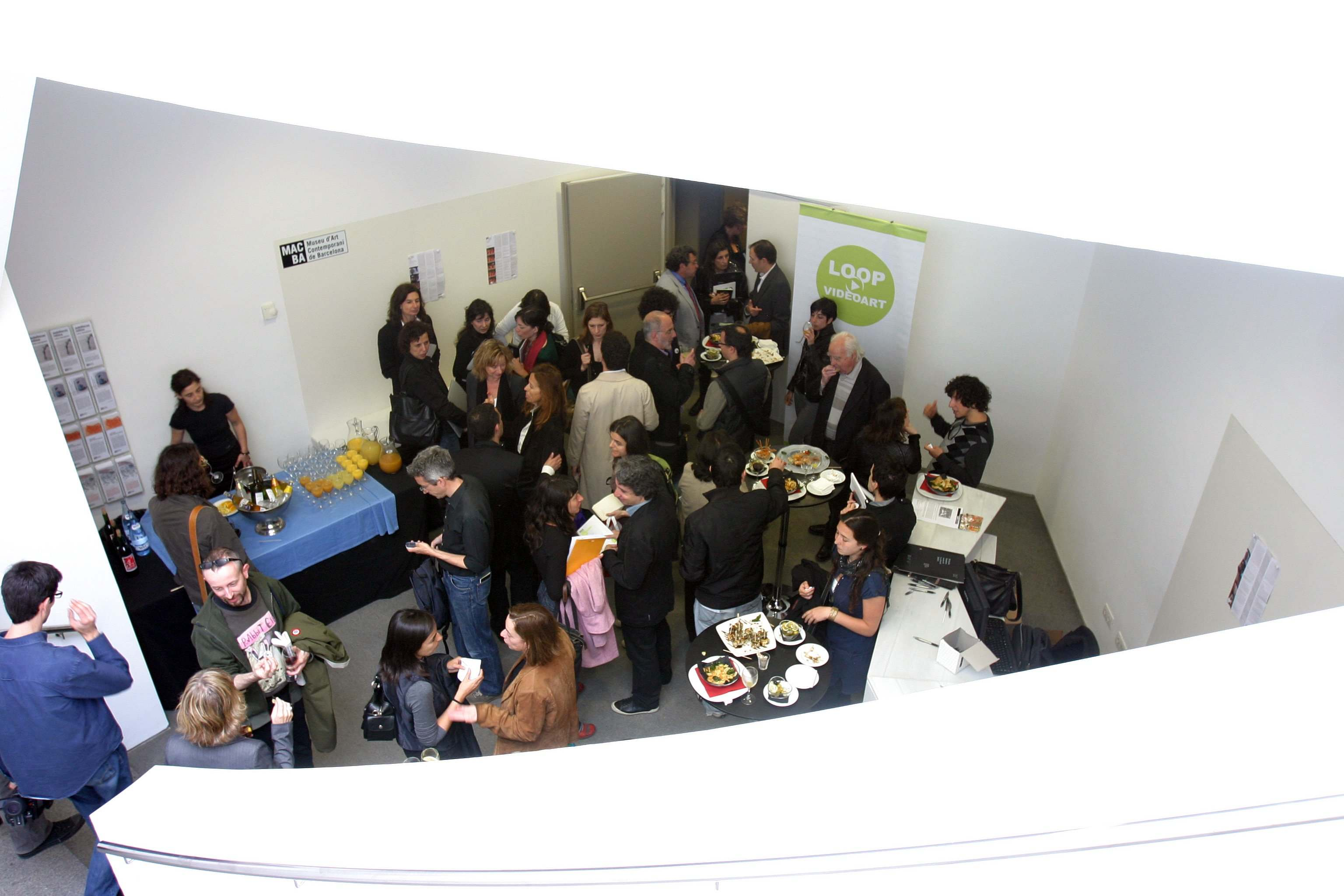 Press meeting LOOP'08